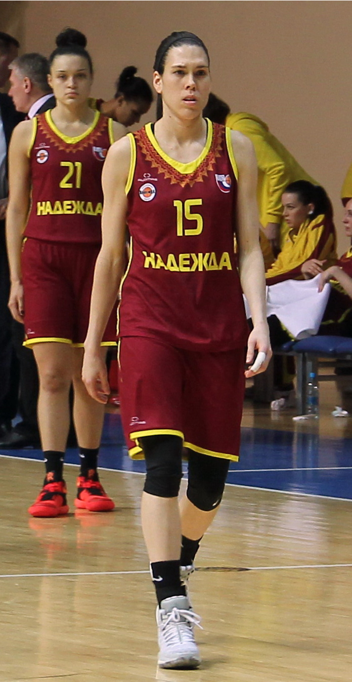 Russia, Vologda, Anna Cruz in game «Vologda-Chevakata» vs «Nadezhda» (Orenburg)